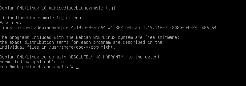 Debian 10.0 console login and welcome message for a X86_64 machine. Taken in a virtual system.